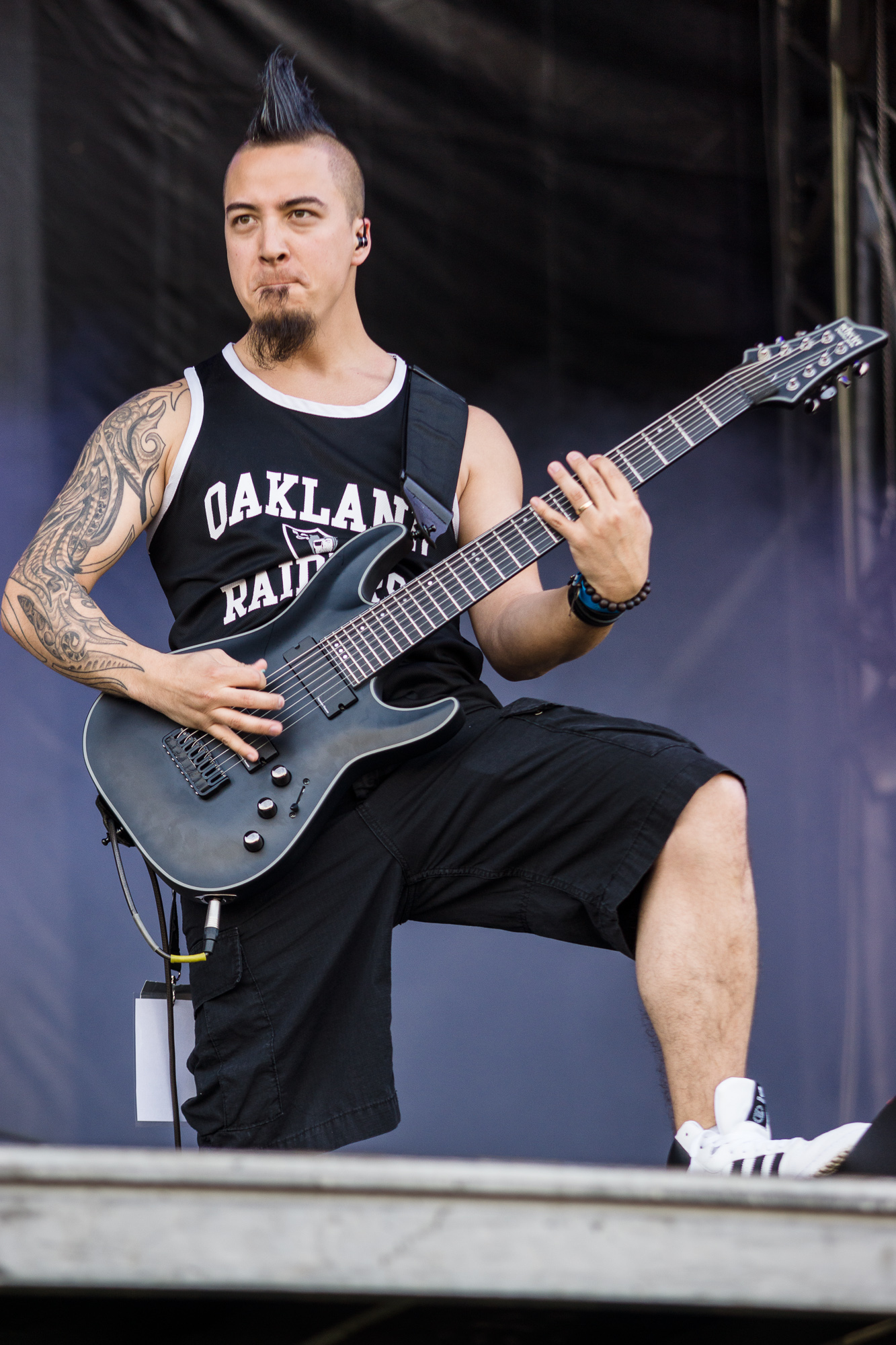 Pontus Hjelm, guitarist of Dead by April band. Ursynalia 2013 Warsaw Student Festival, Poland.